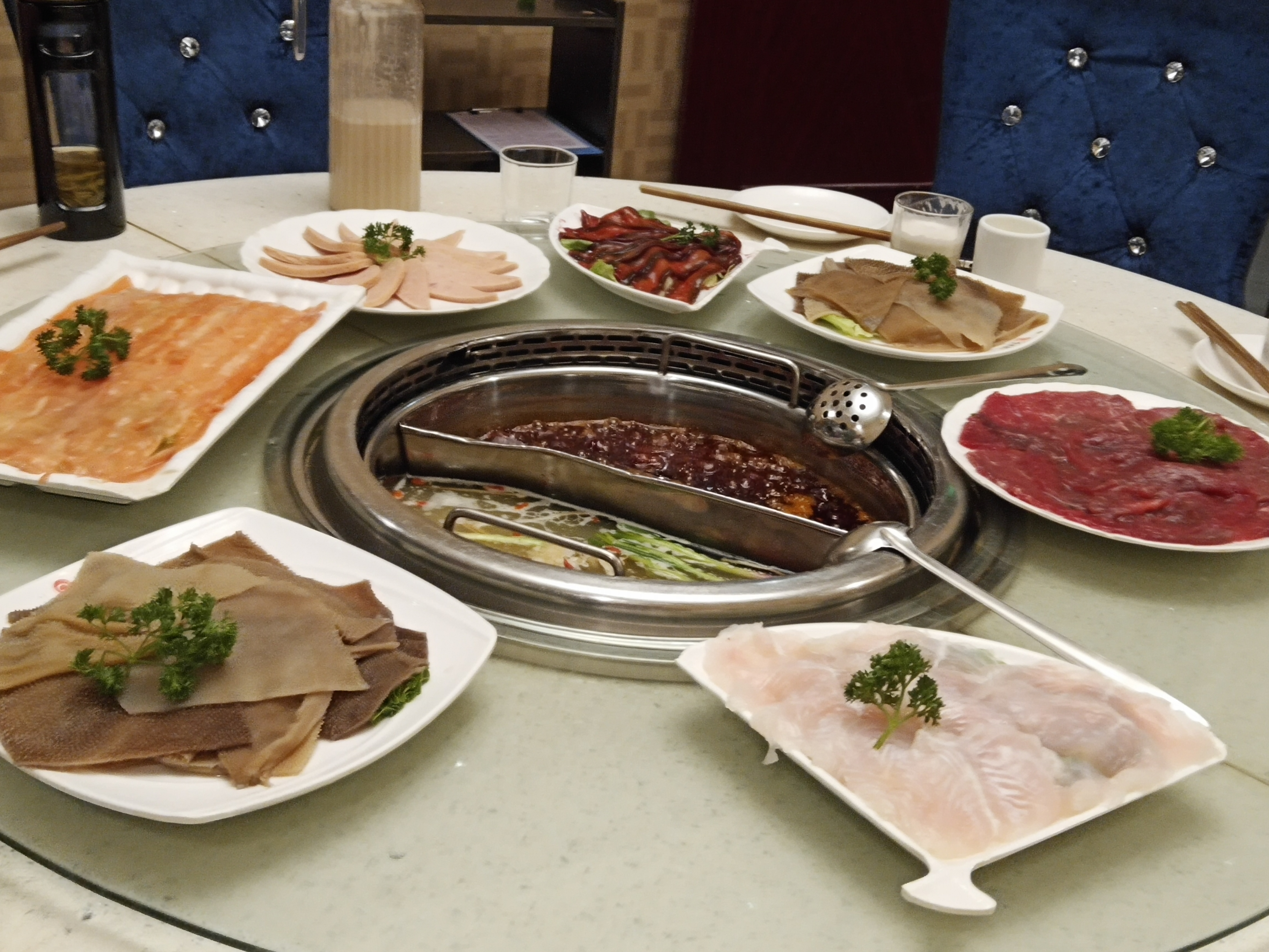 In the annual family visit, foods would be a main theme to watch, talk and taste, especially in Chongqing. You knew, Chongqing is one original place of Chuang cuisine (Wikipedia wasn't at home... ) Do you think you would feel pity to have a taste? So beautiful an artist work that you would feel touched and didn't know where to begin or break the painting structure... ! Yes, that's my feeling at that moment. Chongqing people were famous for their eating fashions, especially with many innovations in different periods. In Chinese idiom, there was a sentence: people see their foods as the sky. That's to say how important foods and eating styles were in common people's hearts. Then, if beyond surviving, it will be not only well tasted but beautifully watched, what level it would nourish our eyes and stomach? In this case, traditional Chongqing Hotpot with 'the old & hot soup' and Taichi (Normal or Spicy) fashion in the middle, then, dishes (for inn) of fish, meat, beef, organ-cuts were running surrounding... You would feel it's like flowers in a small garden, rather than on dinner table. However, Chongqing hotpot was famous for its spicy sauce- no hot, no sense, which you need to take a very care!